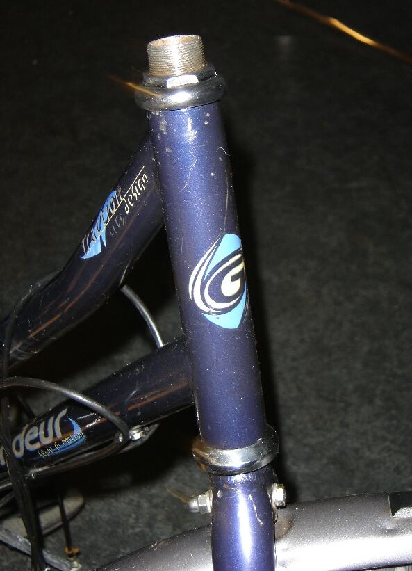 bicycle part, a photo showing the front of a bicycle frame, with handlebars and headset lock nut removed, displaying the installation of a threaded headset.